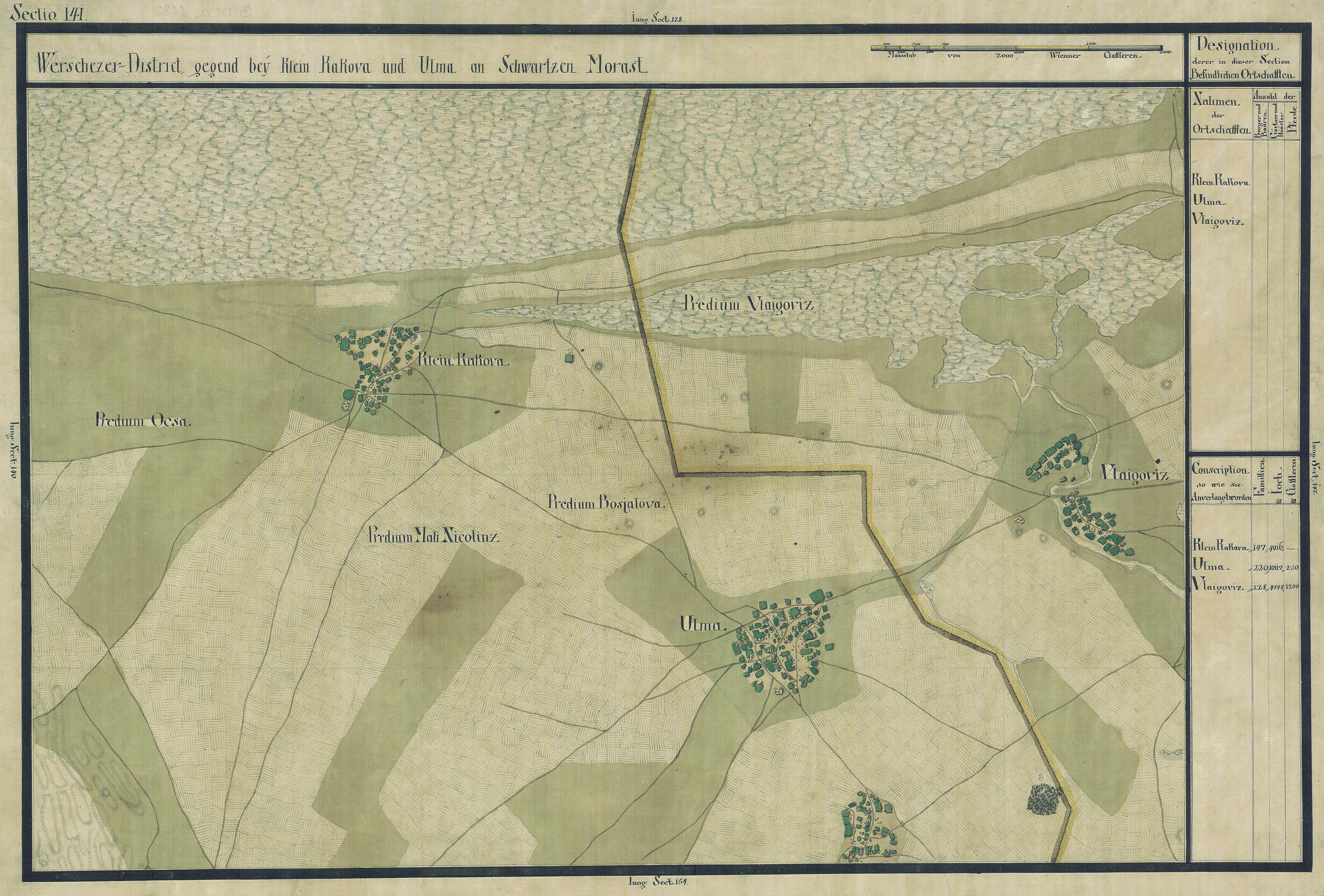 The Banat region in the cadastral maps: Josephinische Landesaufnahme, 1769-72. Josephinische Landaufnahme pg141